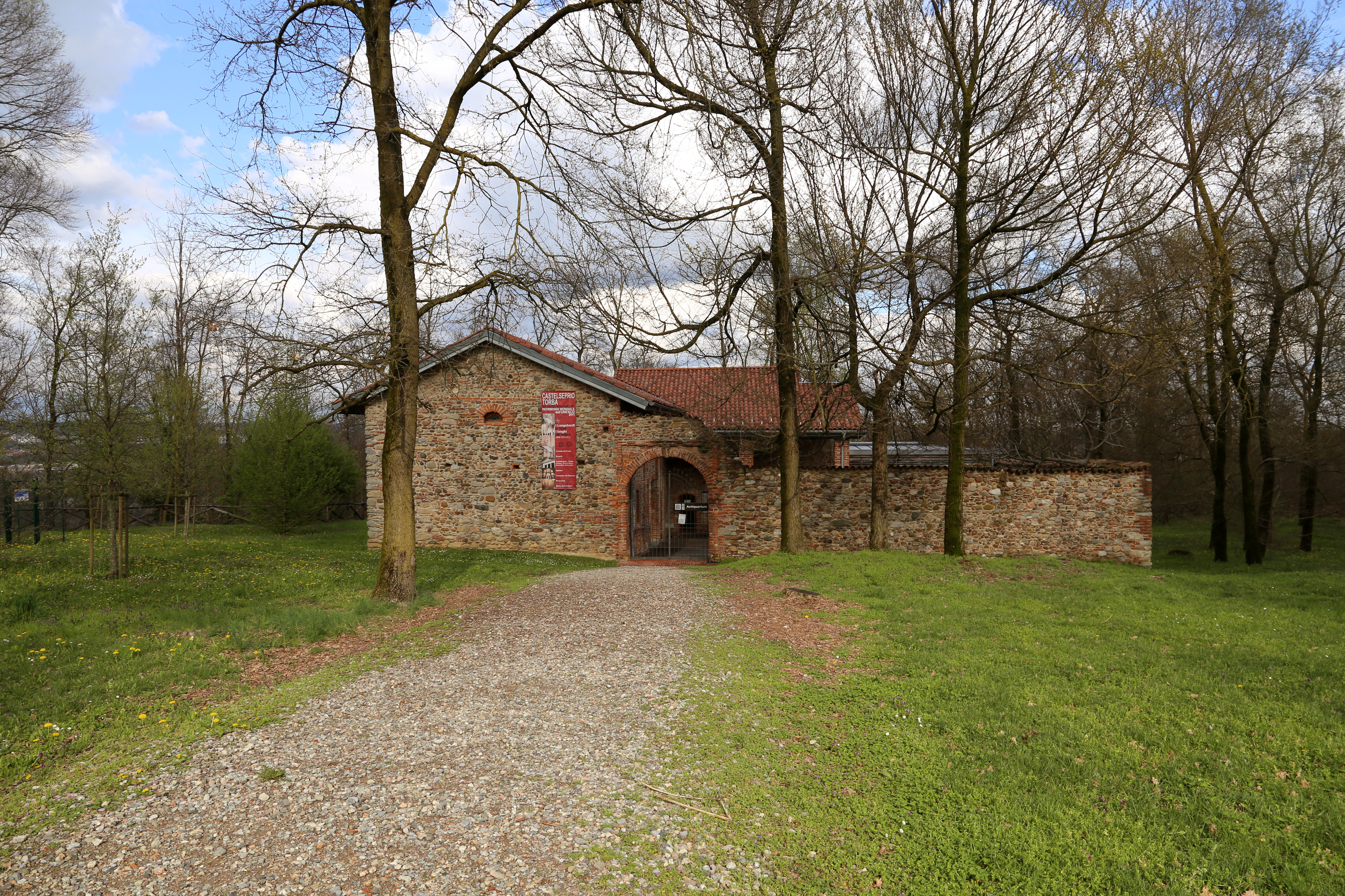 Castrum in Castelseprio